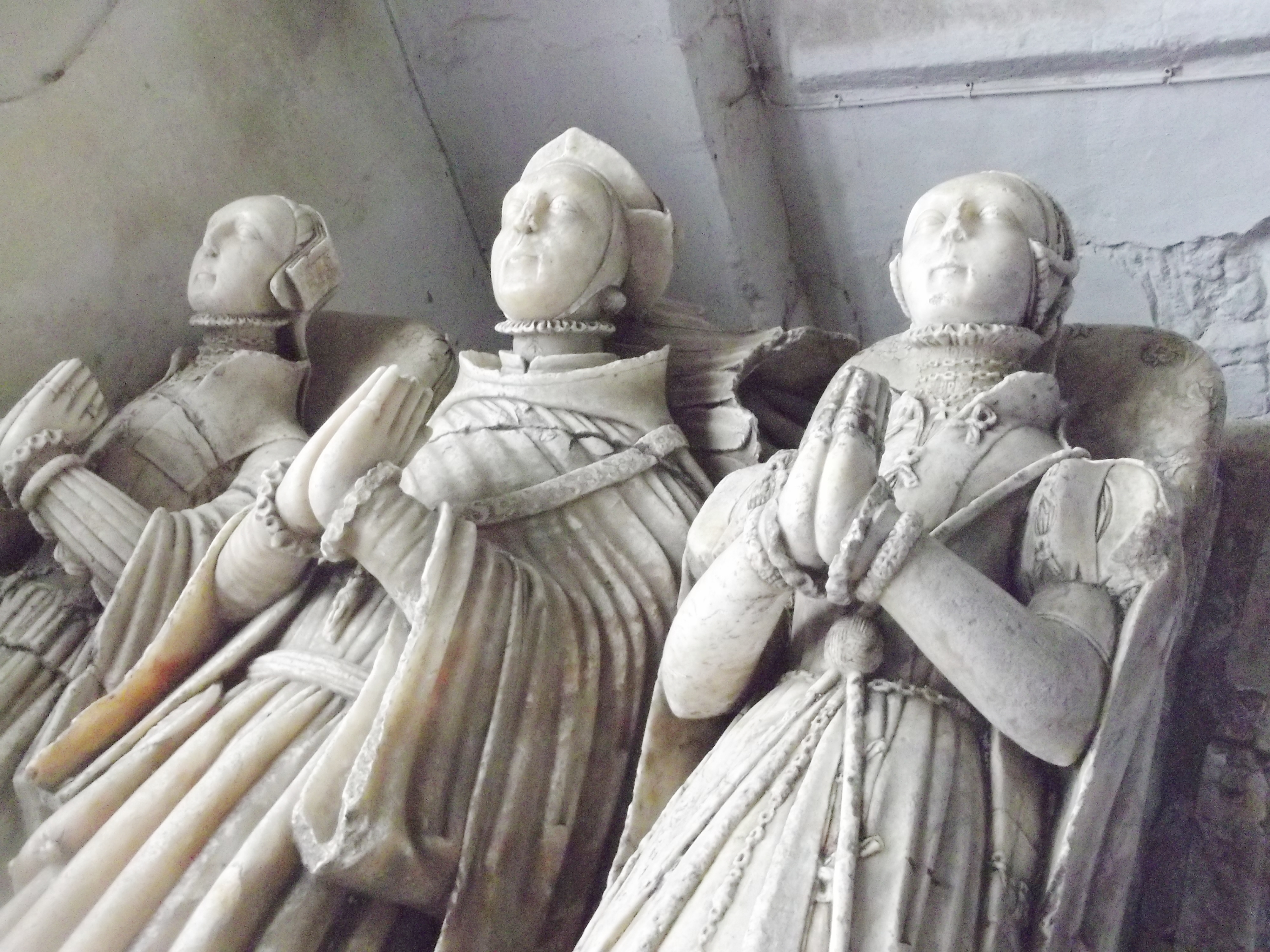 All Saints' church, Claverley, Shropshire, the South Gatacre chapel. Effigies of Sir Robert Broke, distinguished lawyer, judge and Speaker of the English House of Commons; Anne Waring, his first wife, widow of Sir Nicholas Hurleston; Dorothy Gatacre, Broke's second wife.